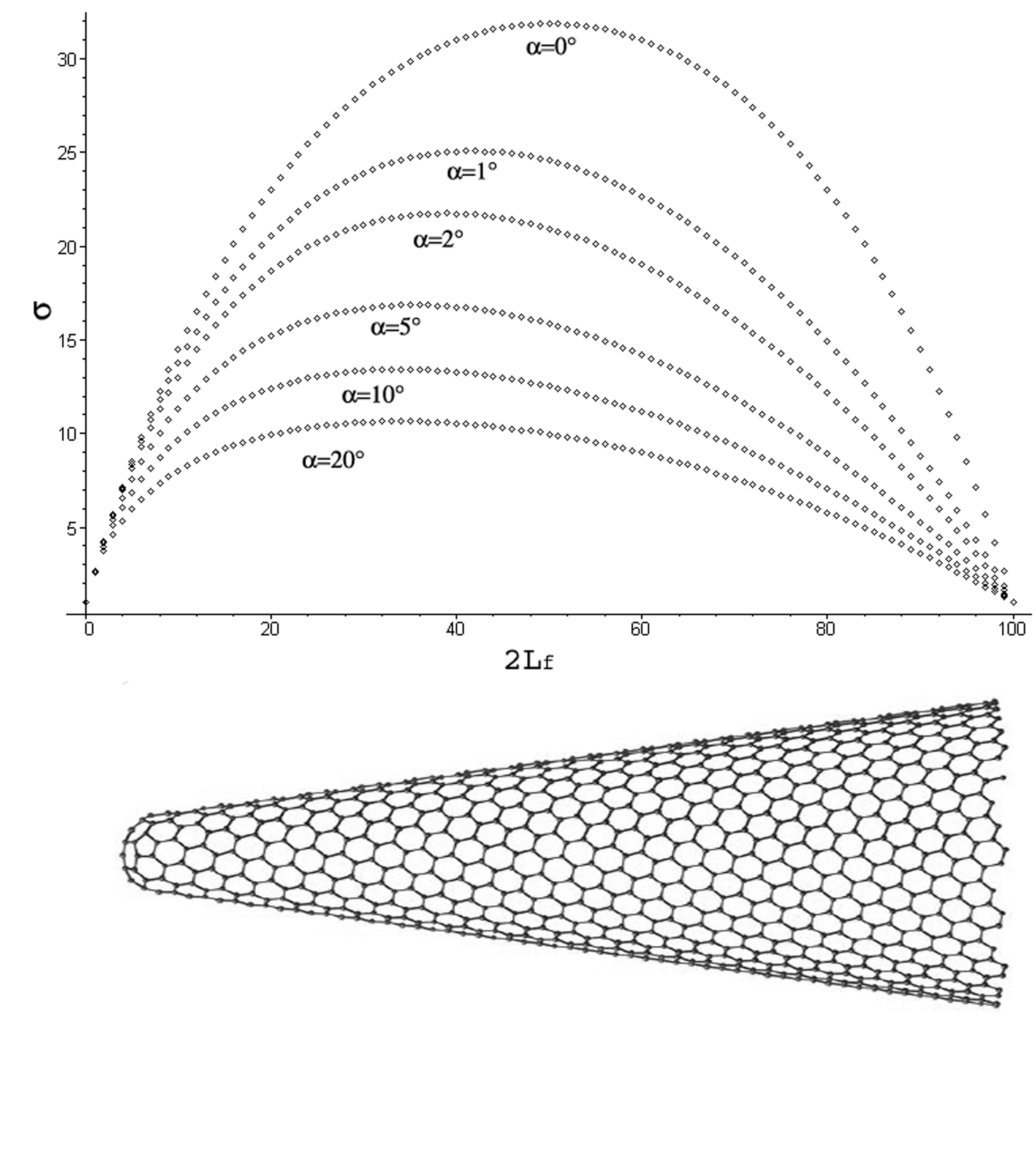 Distribution of axial normal stress along a carbon nano horn embedded on an epoxy matrix under axial loading